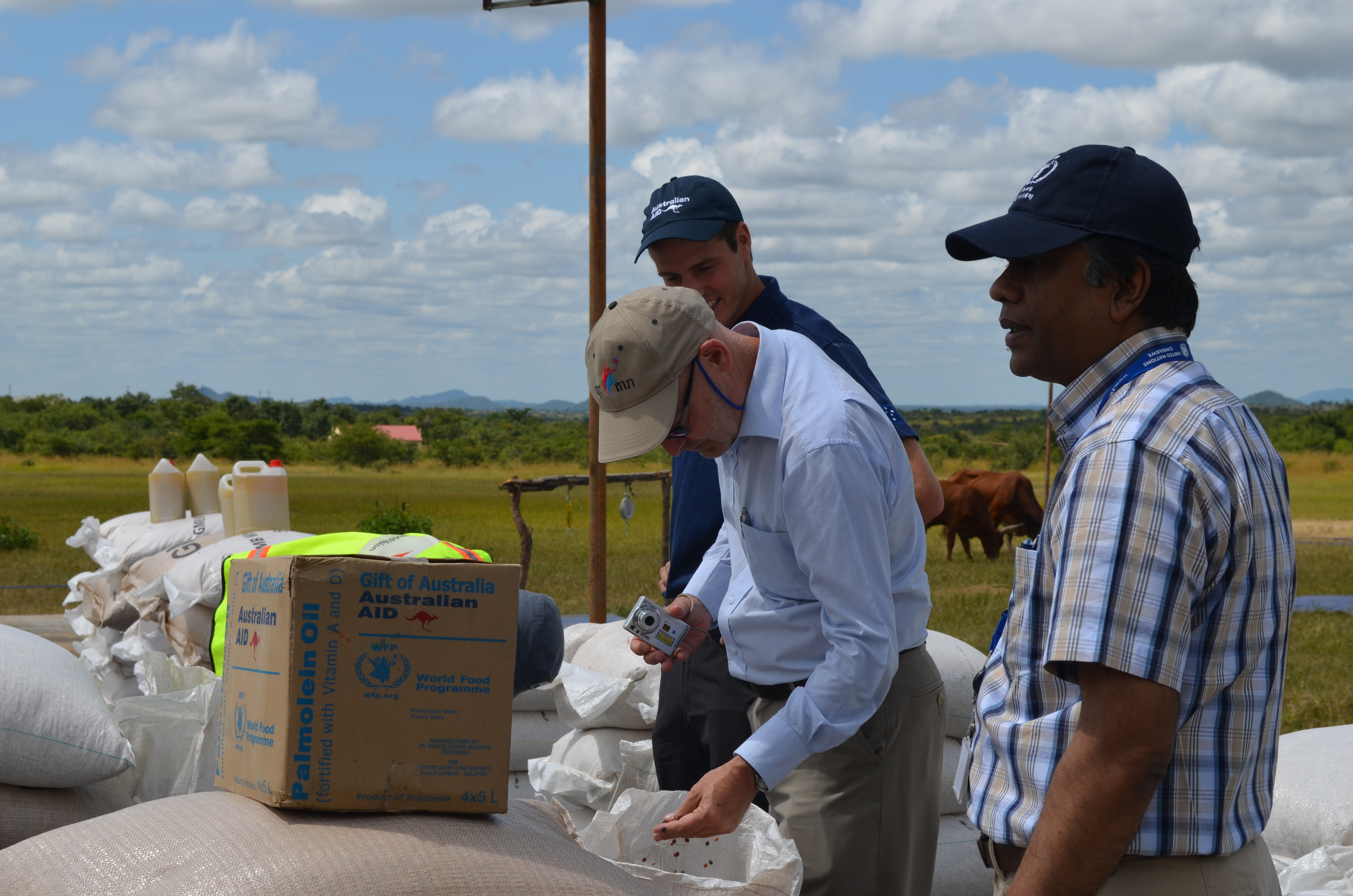 Australia's maize contribution to the WFP Seasonal Targeted Assistance program, Chitse, Mashonaland Central Province, Zimbabwe, 2013. Photo: Victoria Cavanagh, WFP / AusAID